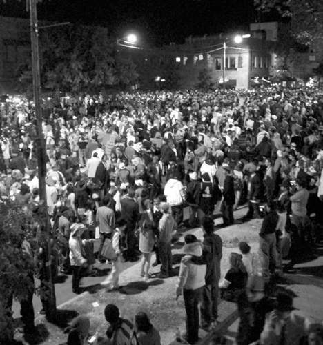 Picture of the crowd on Franklin Street on Halloween.